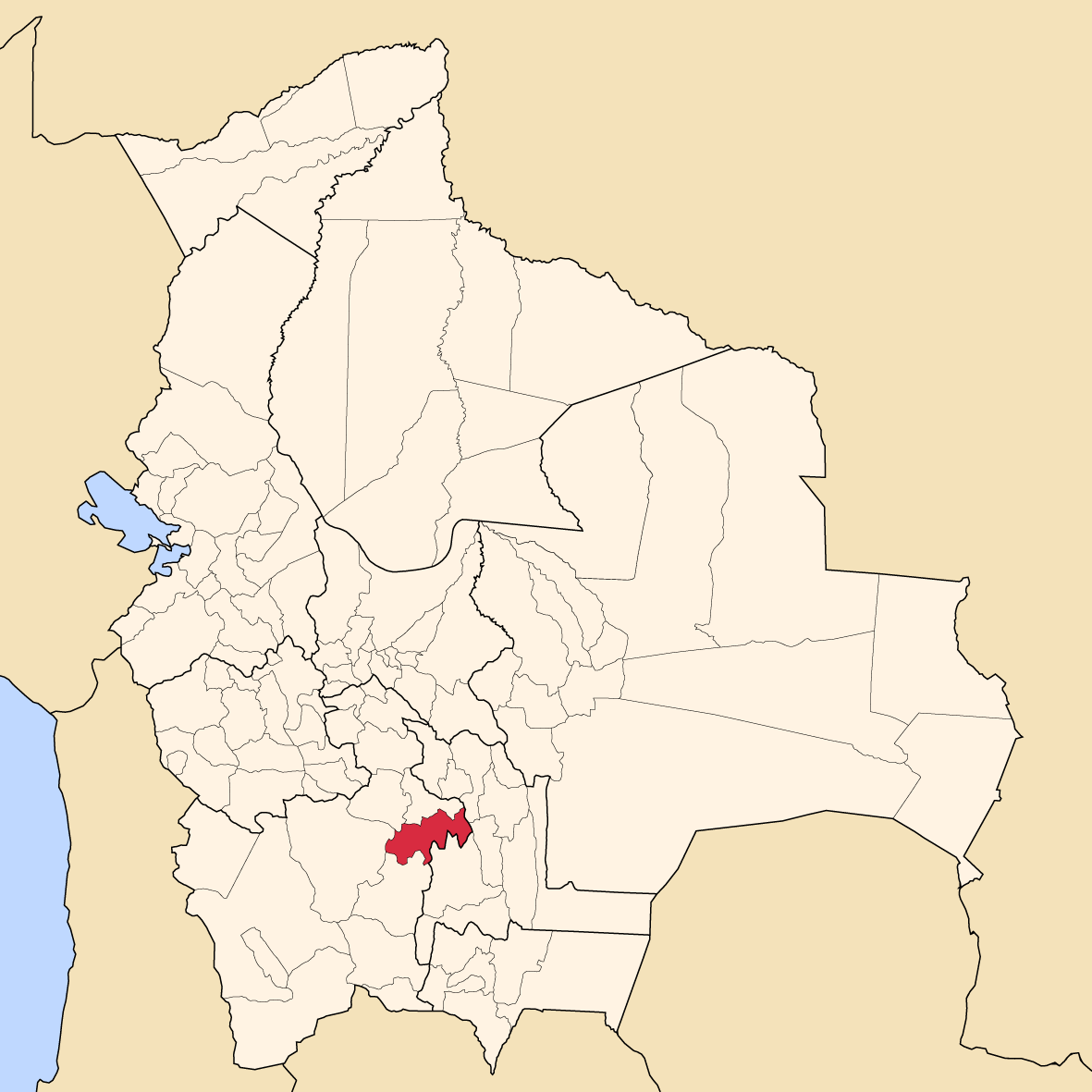 Map of Bolivia showing José María Linares province, Potosí